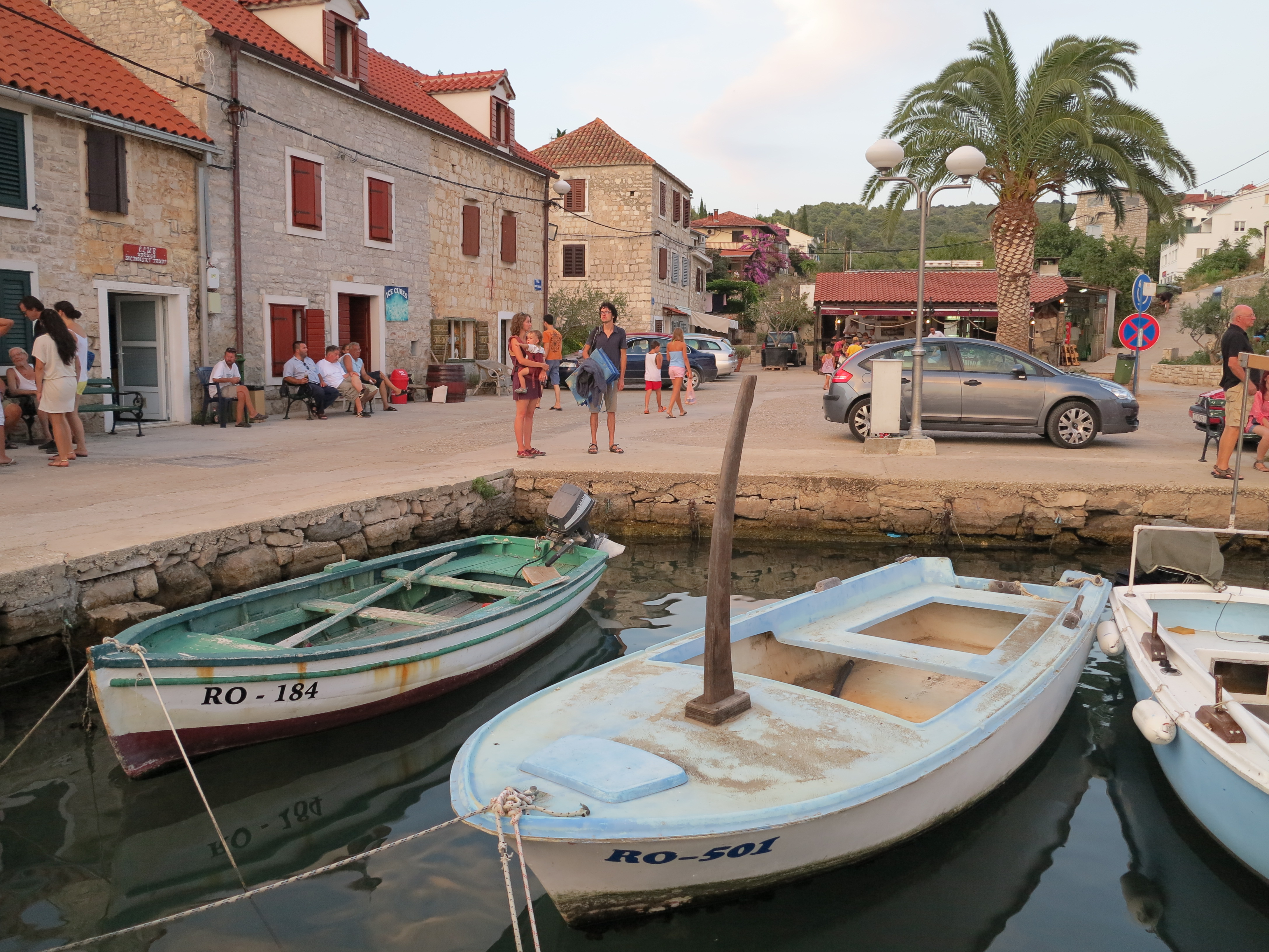 The Marina of Maslinica on the island Šolta / Croatia / Adriatic Sea.